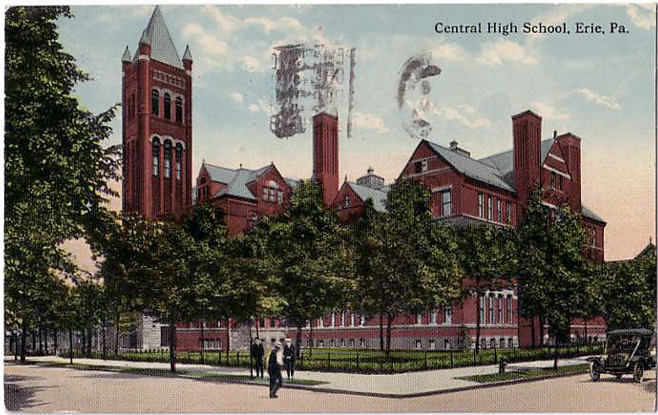 Postcard picture: Central High School, Erie, Pennsylvania (1913)